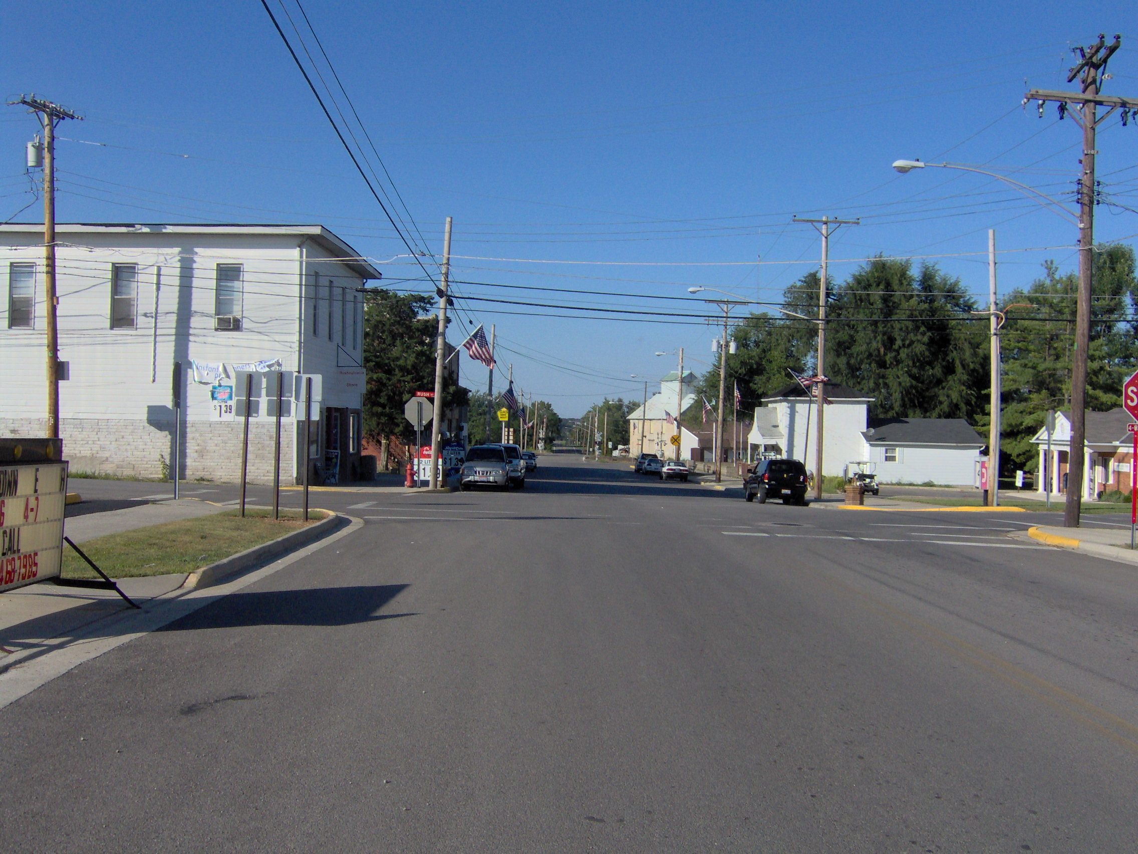 View of the small business district in Rushsylvania, Ohio, facing north on Sandusky Street.